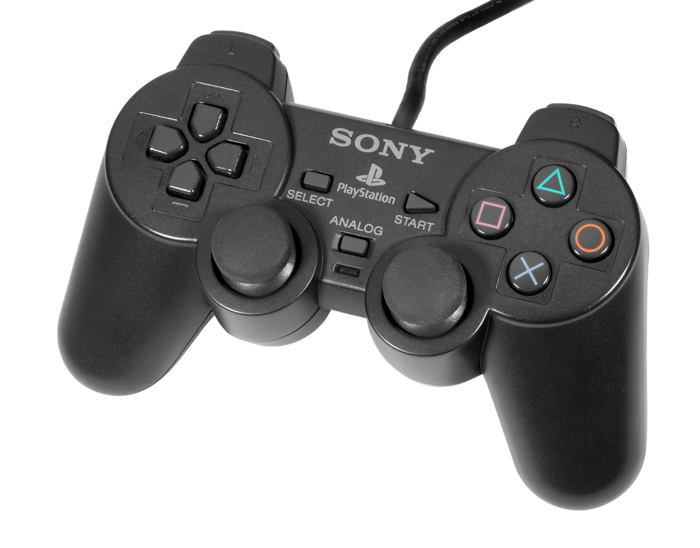 The PlayStation DualShock controller, for the original PlayStation. Color is dark gray.